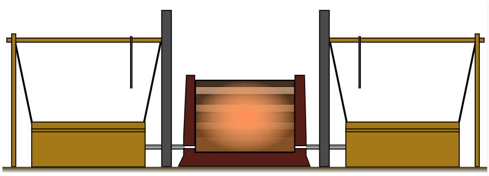 Sketch of a tatara furnace - no text